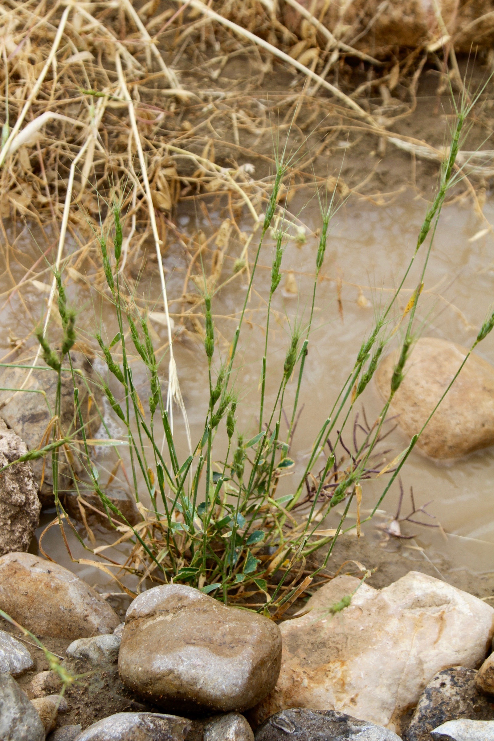 Uzbekistan, South to Shahrisabz.